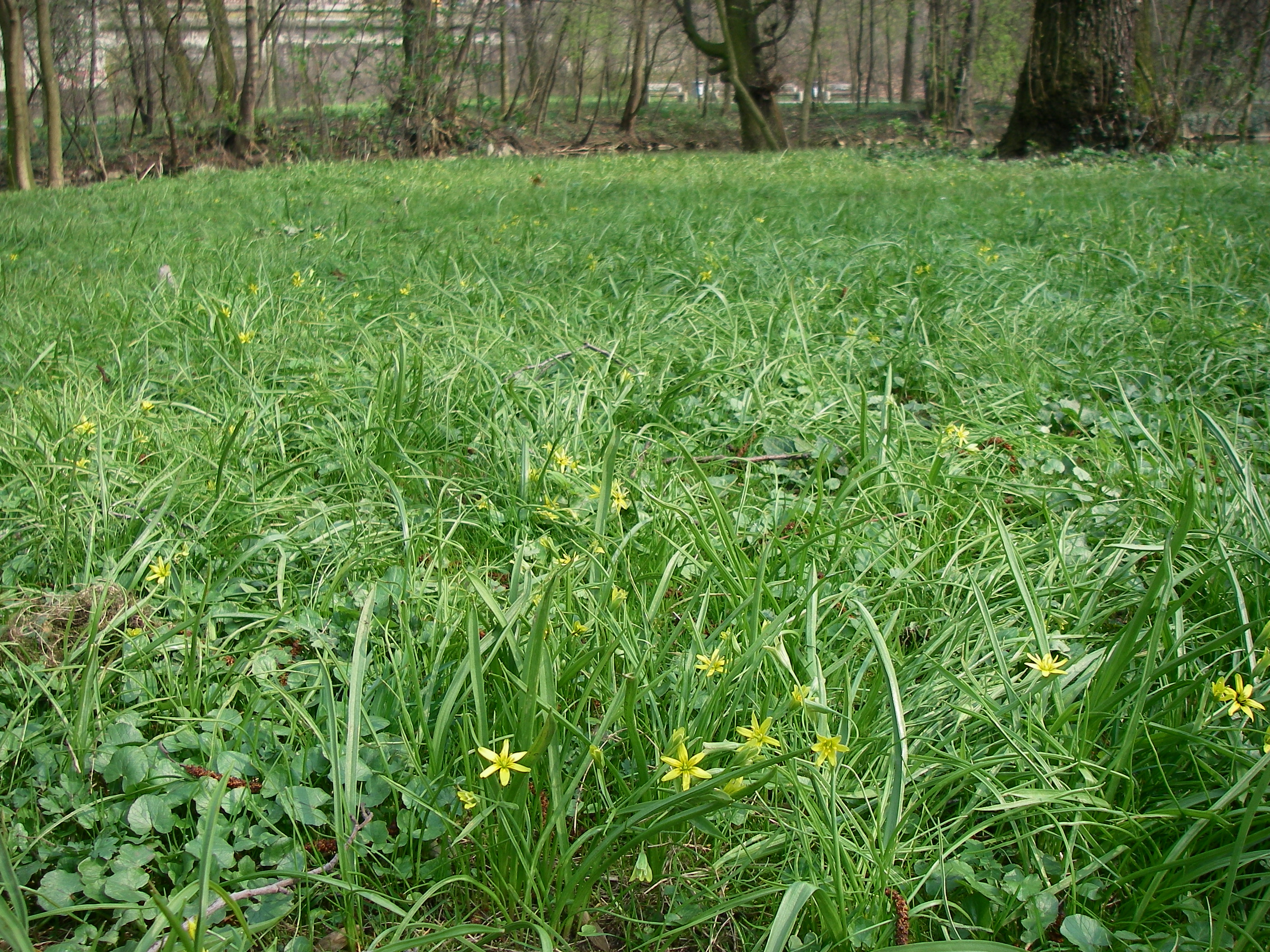 Gagea lutea at Wöhrder Wiese, Nürnberg, Germany